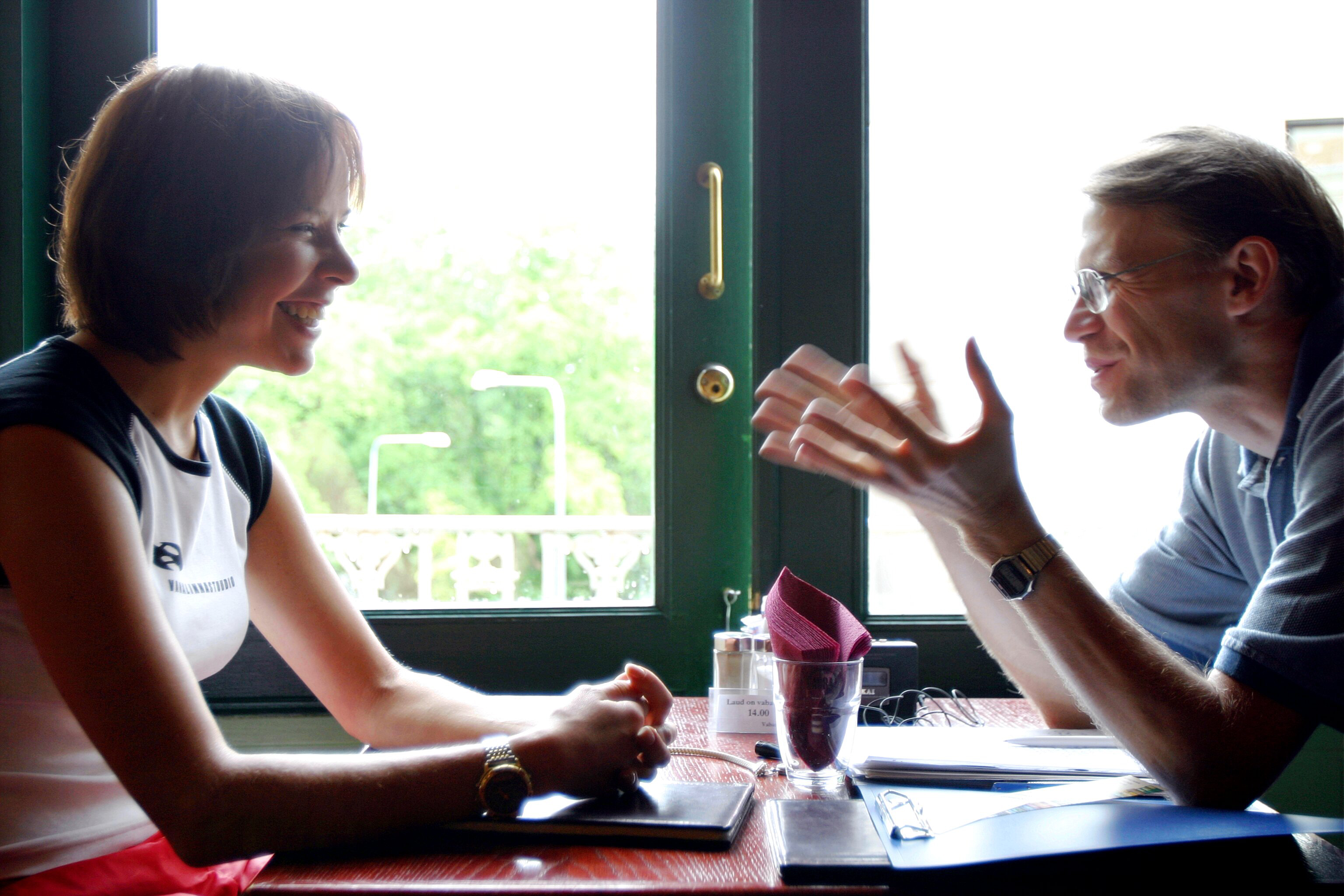 Estonian actor Kadri Adamson (left) is giving an interview to newspaper Postimees. In right there is journalist Priit Pullerits.